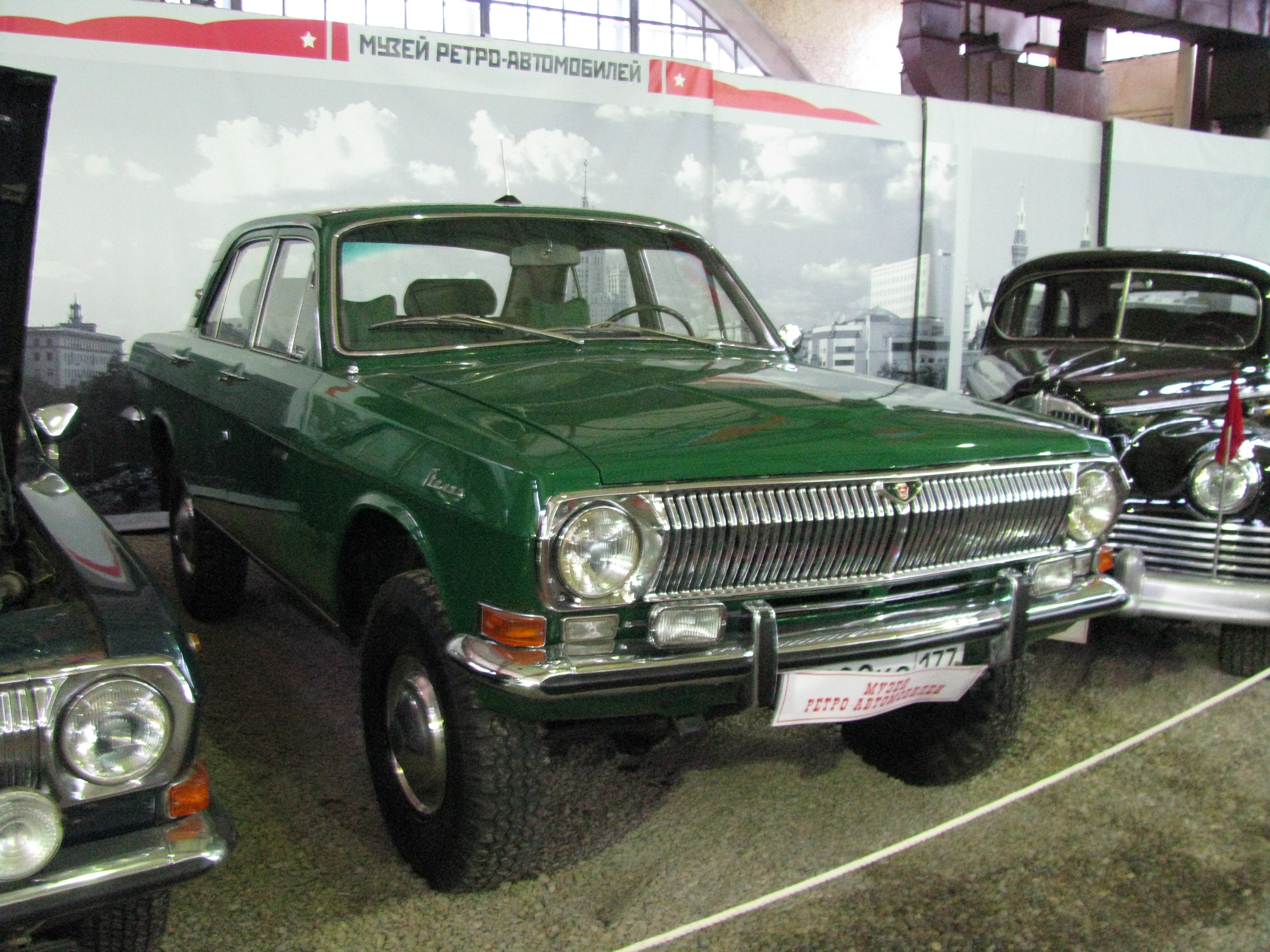 GAZ-24-95 Volga which belonged to Leonid Brezhnev